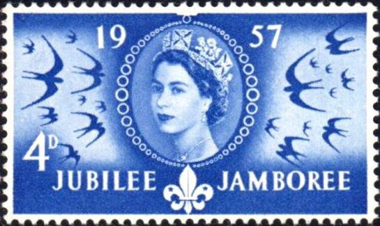 1957 4d scouting stamp.